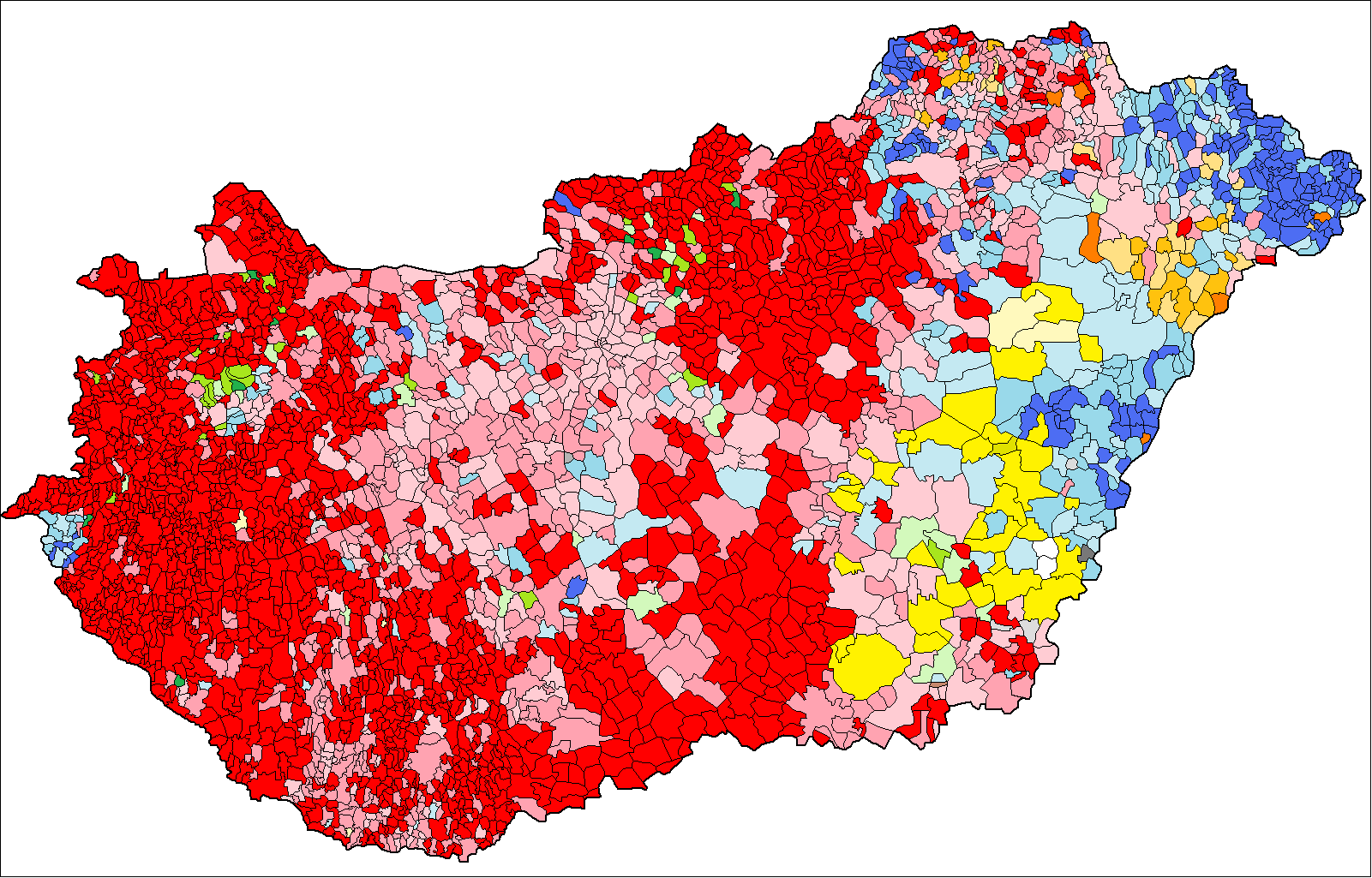 Largest confession groups by settlements in Hungary, 2001